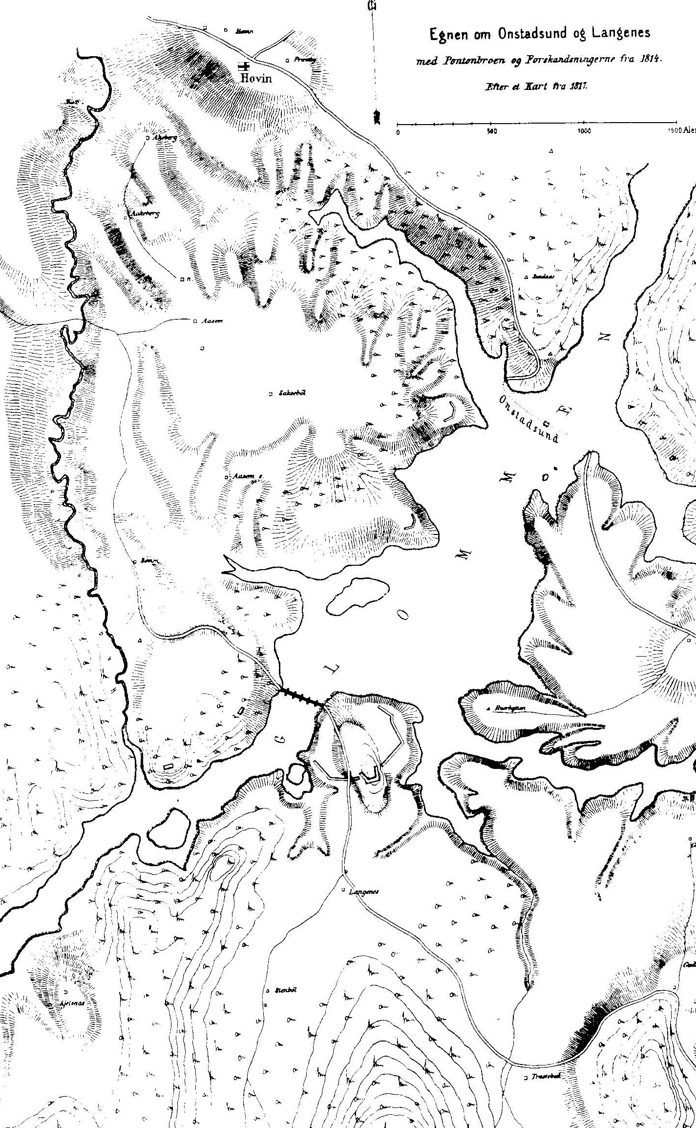 Karte von Langnes, in der die Ponton-Brücke und die Schanze eingetragen sind. Die Schweden kamen von Süden.